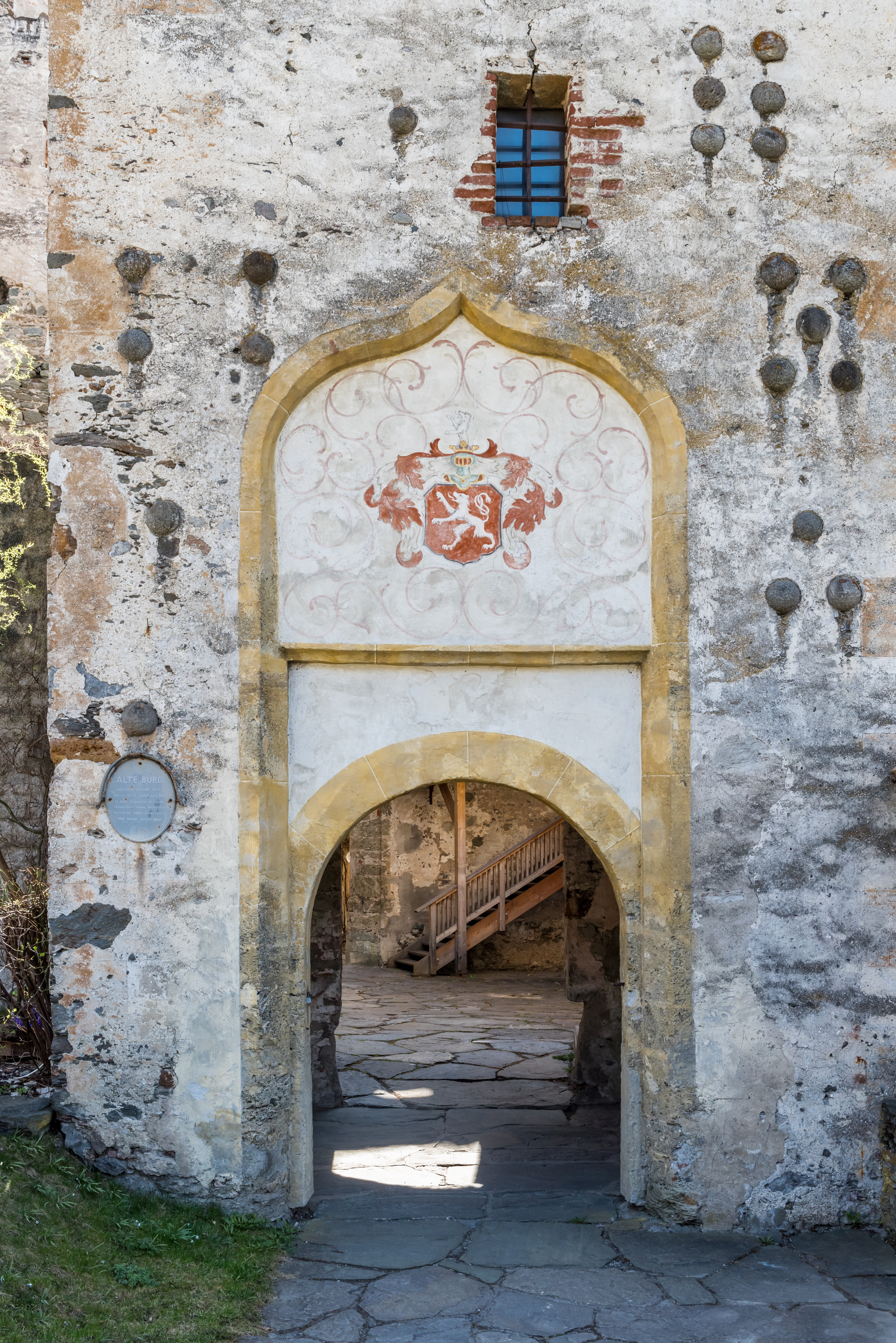 Gothic ogee-arched portal of the old castle on Burgwiese #1, municipality Gmünd, district Spittal an der Drau, Carinthia, Austria, European Union